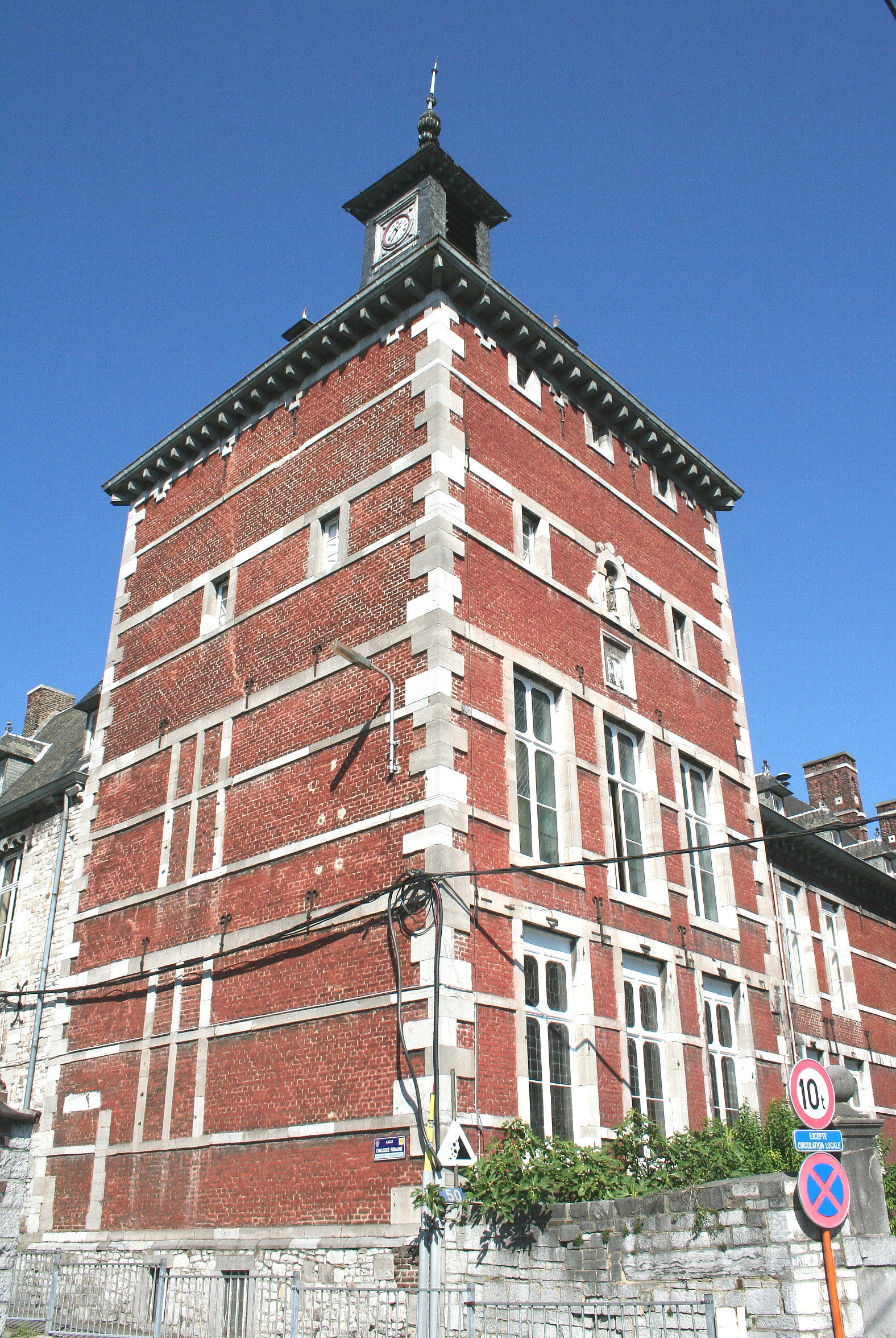 Flône (Belgium), tower of the Flône abbey (XVIIth century).